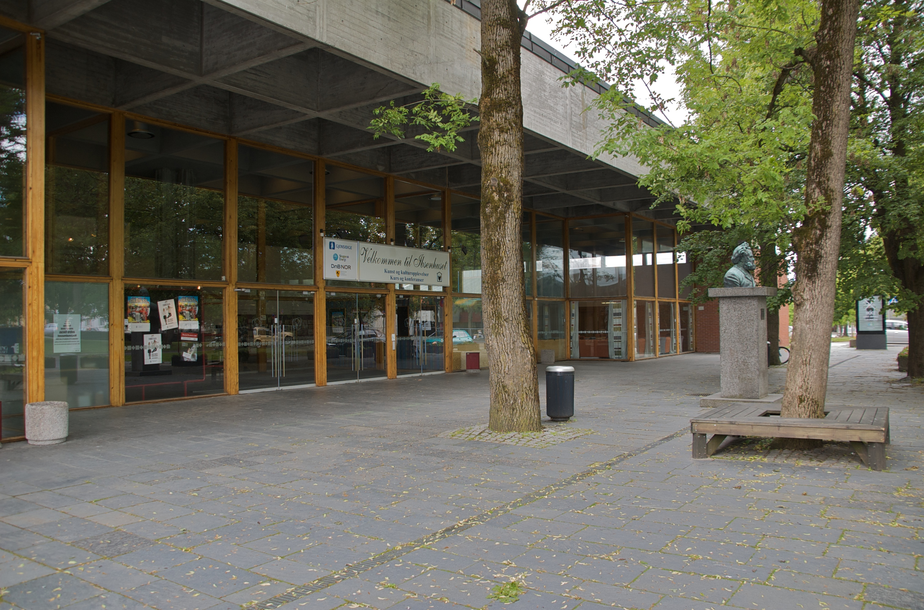 A concert hall in Skien, Norway.